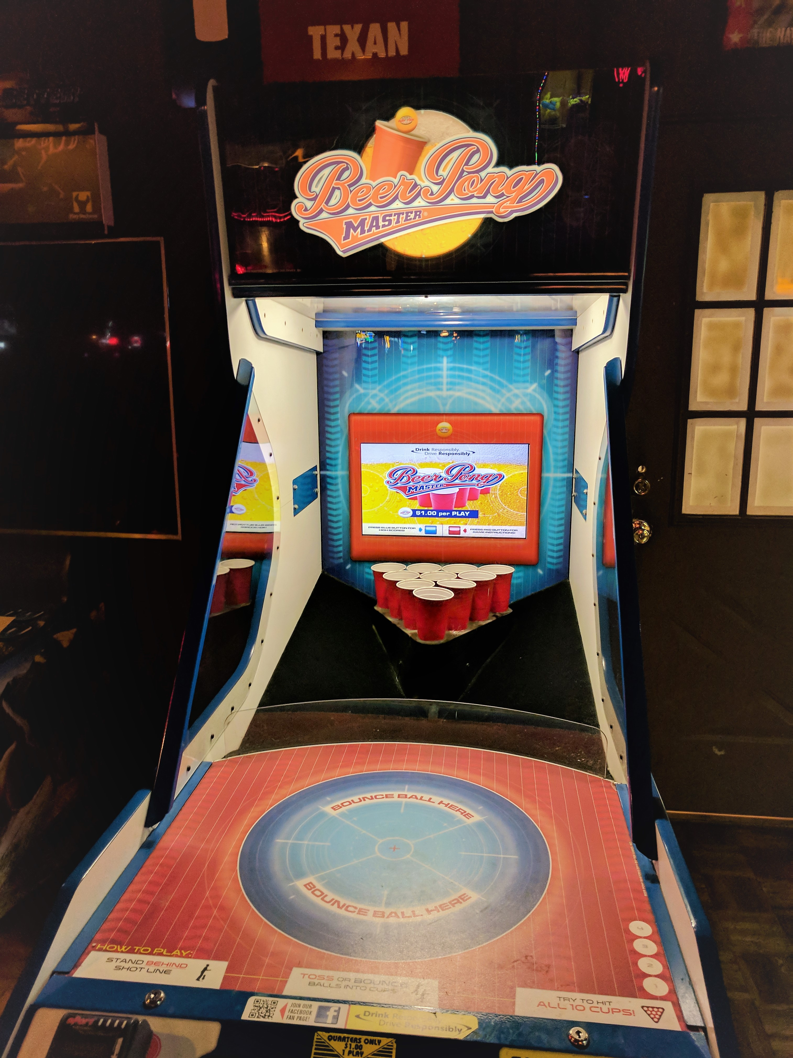 A beer pong arcade game machine at a nightclub in Texas, US.